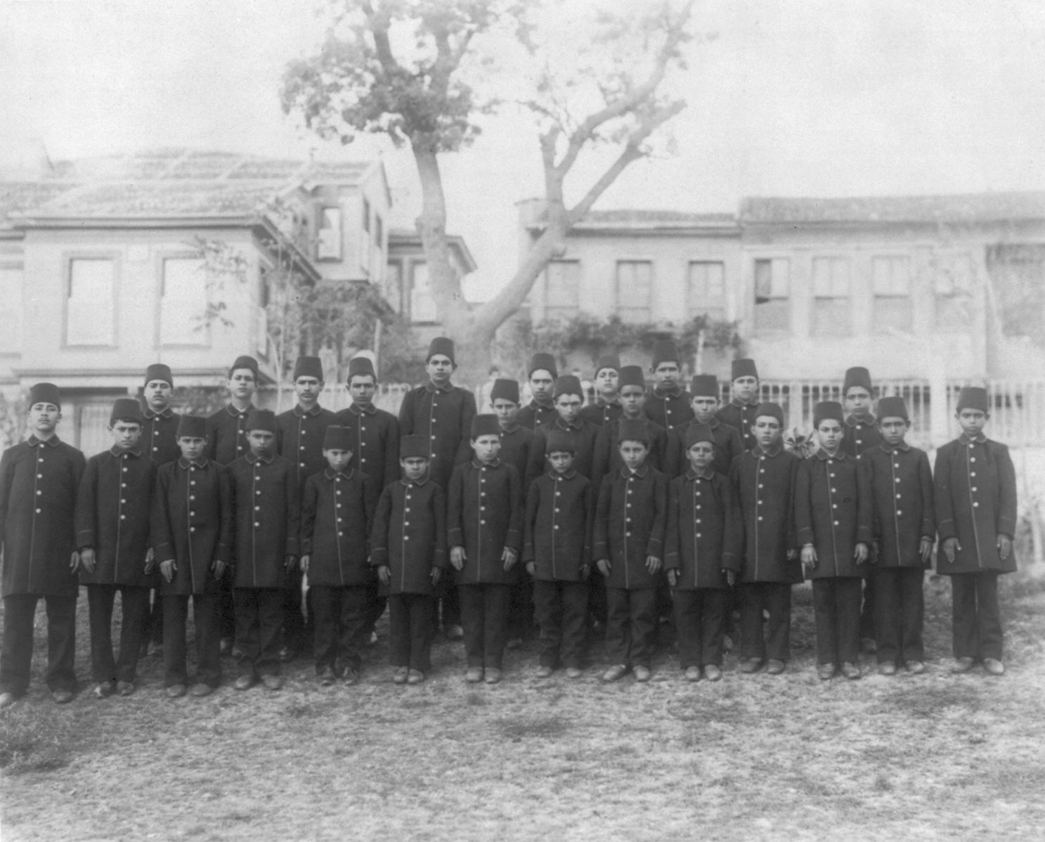 Group of Students of Mekteb-i Aşiret-i Humayun (Imperial Tribal School), which was an Istanbul school founded in 1892 by Abdulhamid II to promote the integration of tribes into the Ottoman empire through education. Abdullah Frères — Viçen (1820-1902), Hovsep (1830-1908) and Kevork Abdullah (1839-1918): three armenian brothers who ran a commercial studio in Constantinople with branches in Cairo and Alexandria. In 1862, named official photographers to the court of Sultans Abdul Aziz and Abdul Hamid II, they were commissioned to document the Ottoman Empire.